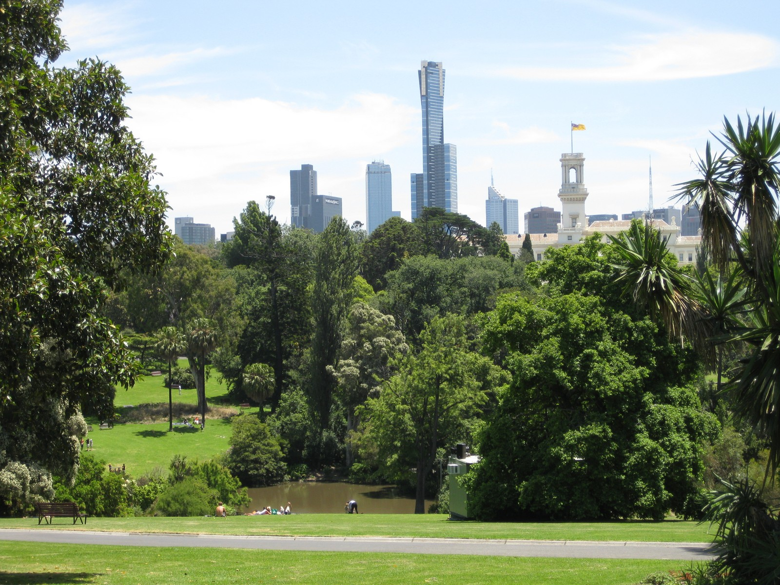 Photographed at the Royal Botanic Gardens Melbourne (Australia) in December